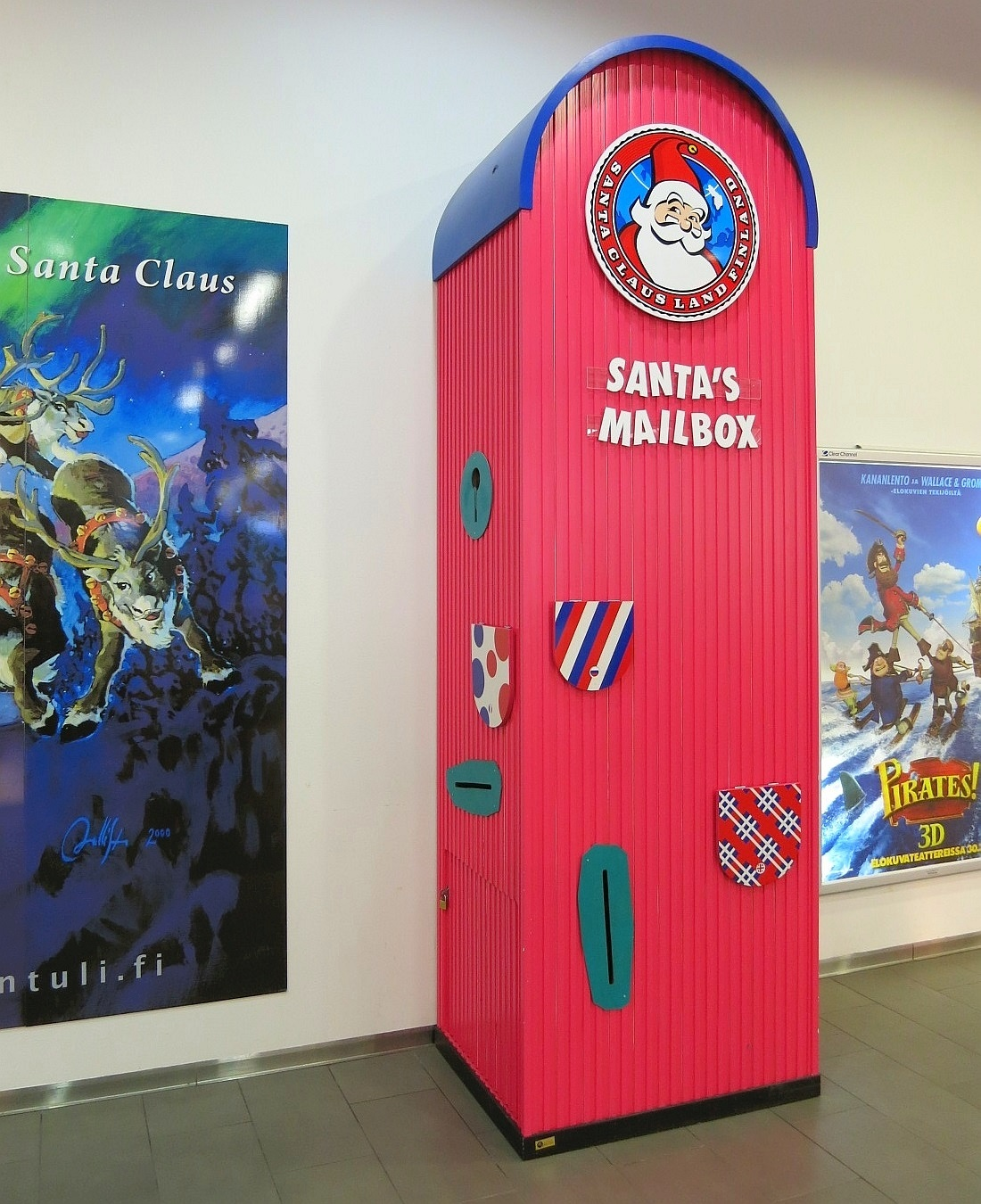 Santa Claus’ mailbox in shopping center Revontuli of Santa Claus’ hometown Rovaniemi (Finland). This mailbox is in use all year round.